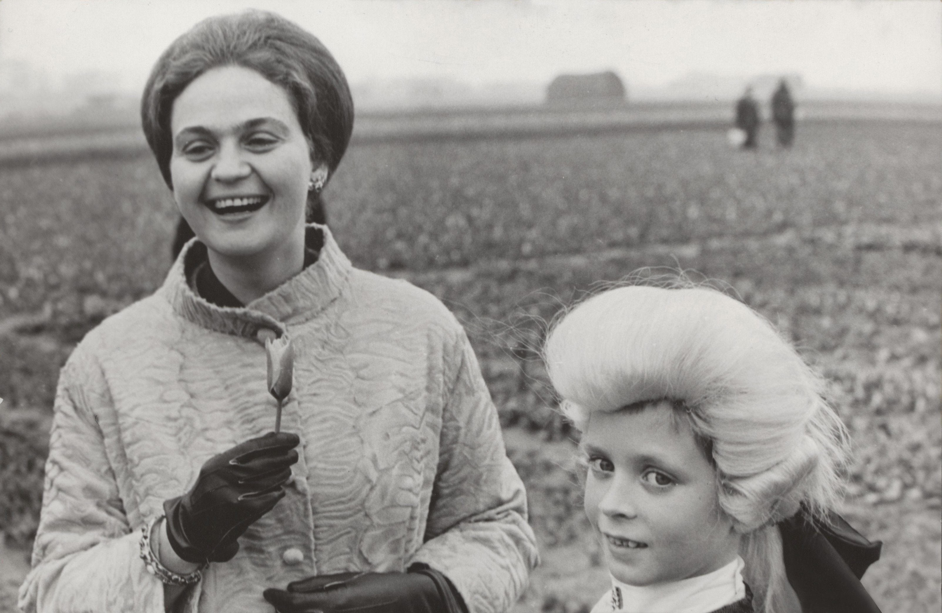 Dutch tulip named after Ingrid Haebler, pianist from Austria. Keukenhof Lisse, 18 april 1966